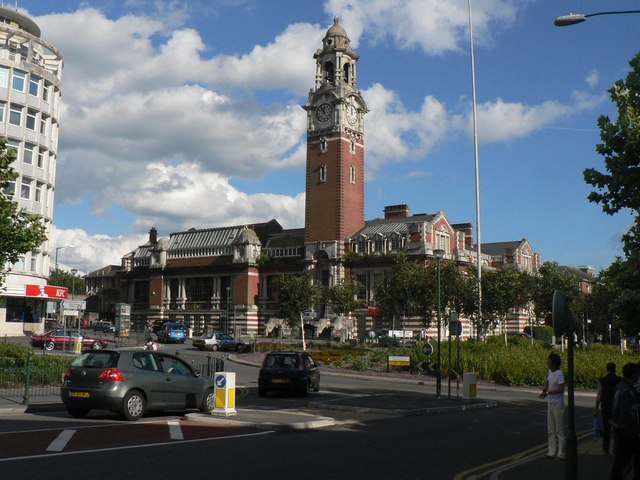 Bournemouth: The Lansdowne The Lansdowne roundabout is the centre of the town's business district, with many University buildings and major offices of many financial institutions. The building centre of picture, with the clock tower, is discussed in more detail here: 480650. The large building far left (with KFC on the ground floor) is 618492, built on the site of the Hotel Metropole which was destroyed by enemy bombing in the second World War. The green triangular 'island' behind the car in the foreground, and a similar one just out of picture to the right, were once the roofs of the underground gents' and ladies' toilets, before they were demolished and replaced by these rather more appealing patches of greenery.